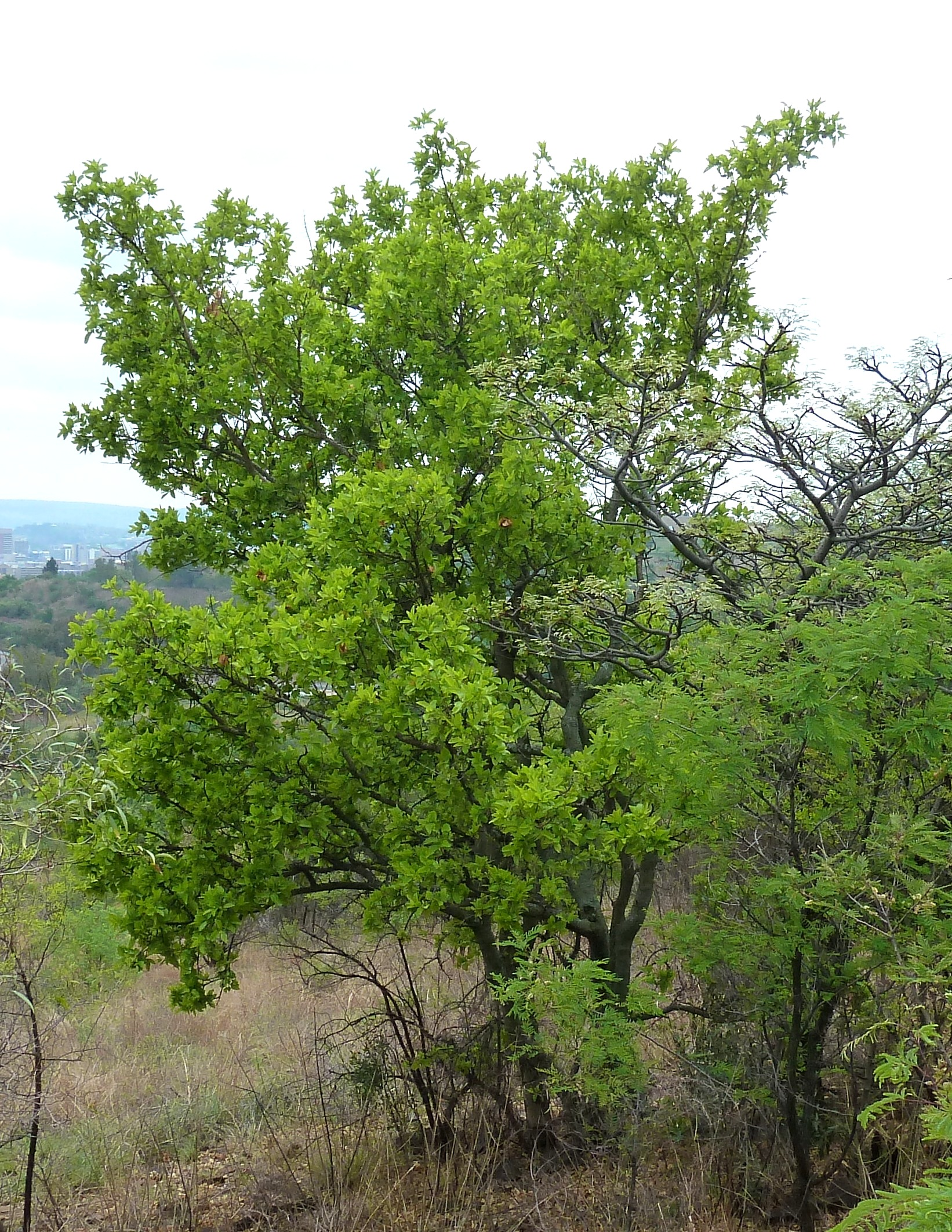 Habit of a Large-fruited bushwillow at Schanskop, Pretoria